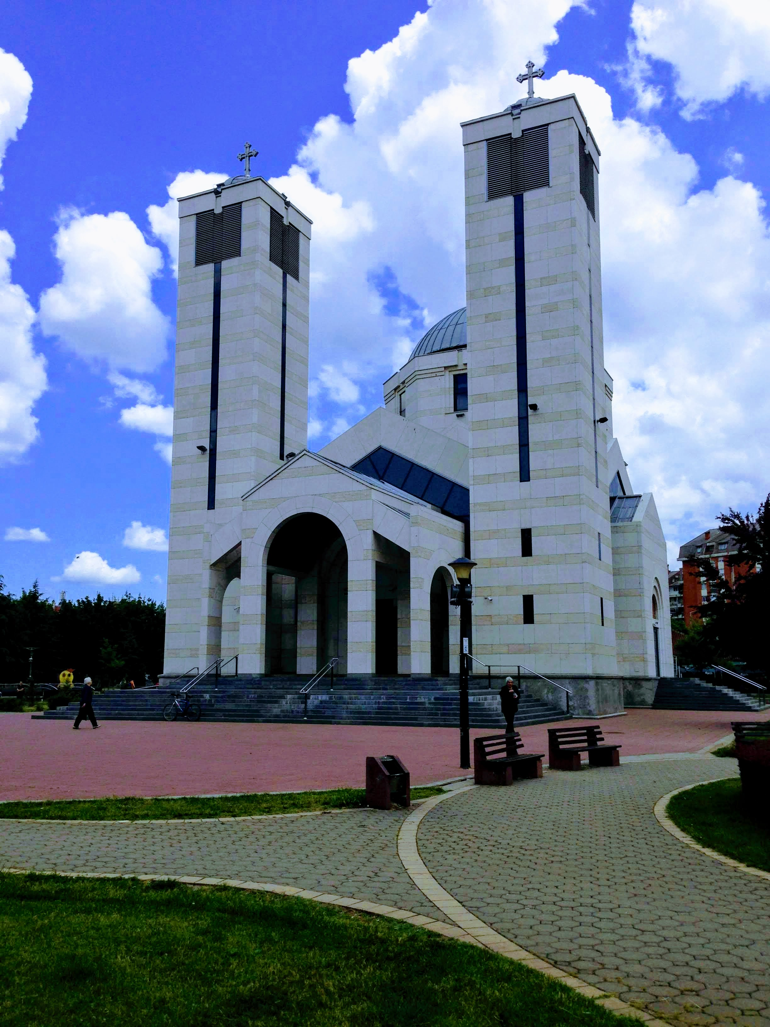 Church of the Holy Emperor Constantine and Empress Helena Niš, Serbia